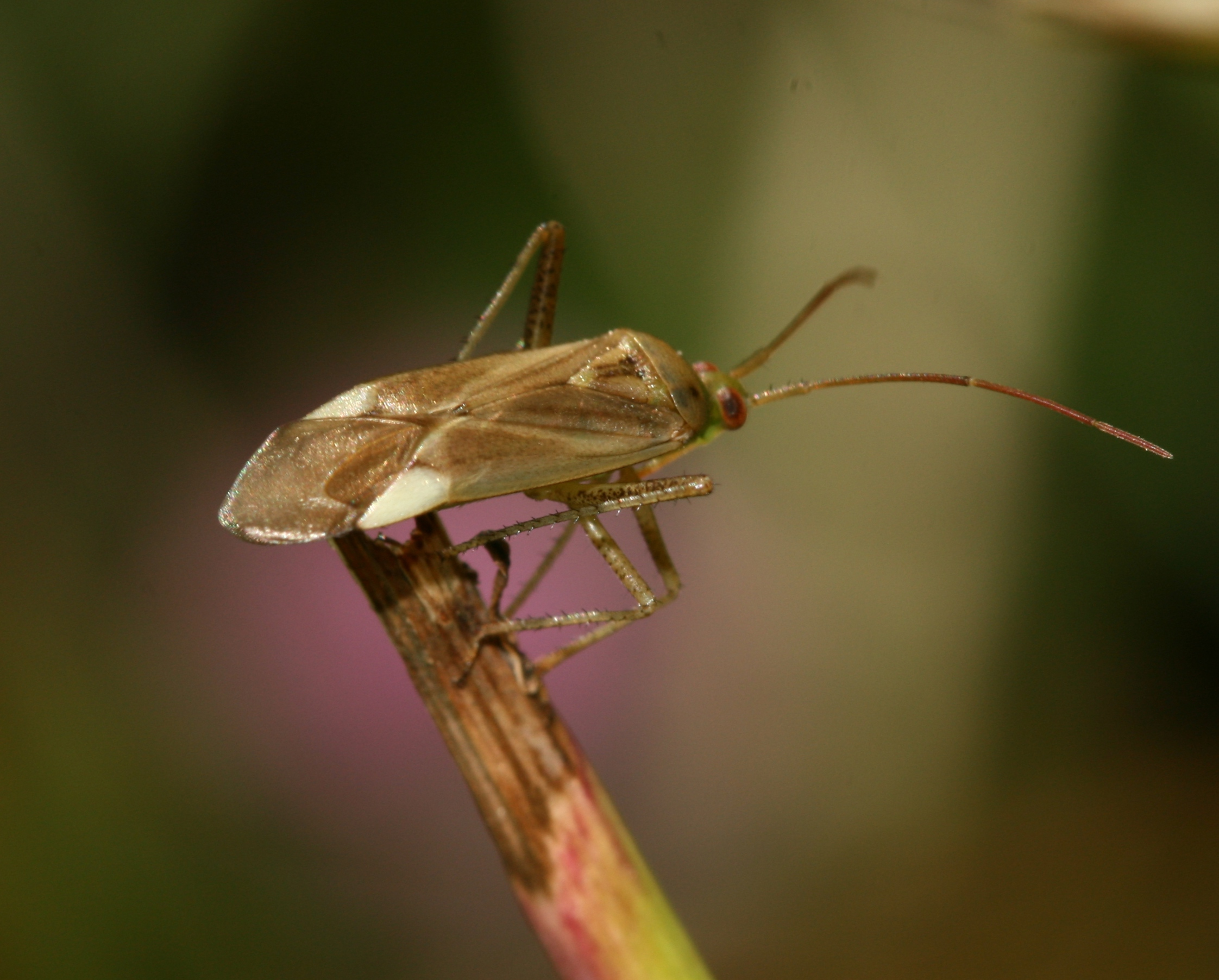 Gullane Bents, East Lothian, Scotland Reference